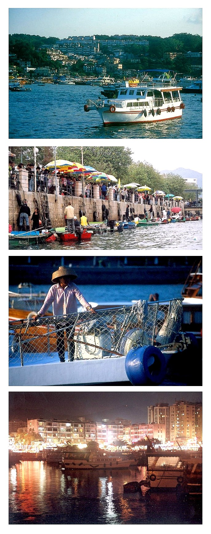 Various views from Sai Kung Harbour, Hong Kong SAR, China.